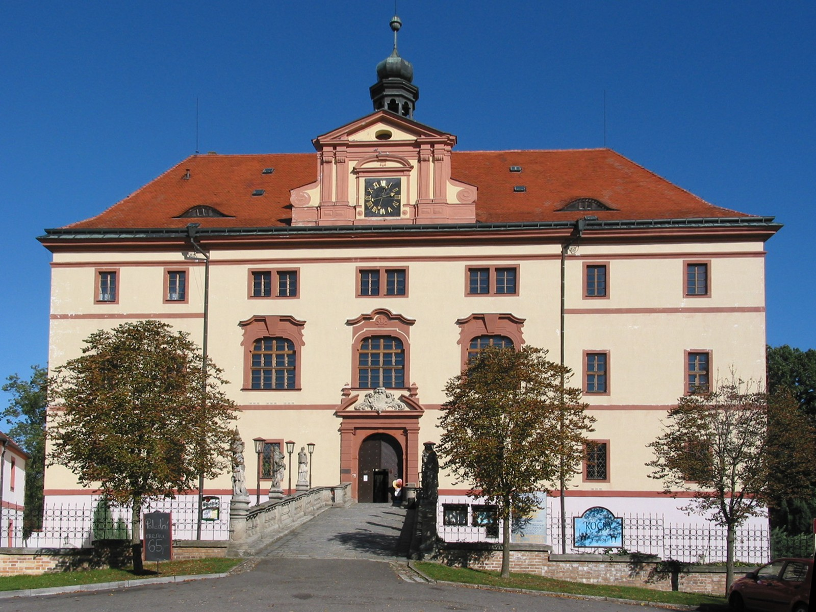 New Chateau Lnáře